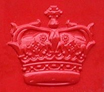 Queen Elizabeth's Crown of Scotland on a post box in Qunitiles, Edinburgh, Scotland